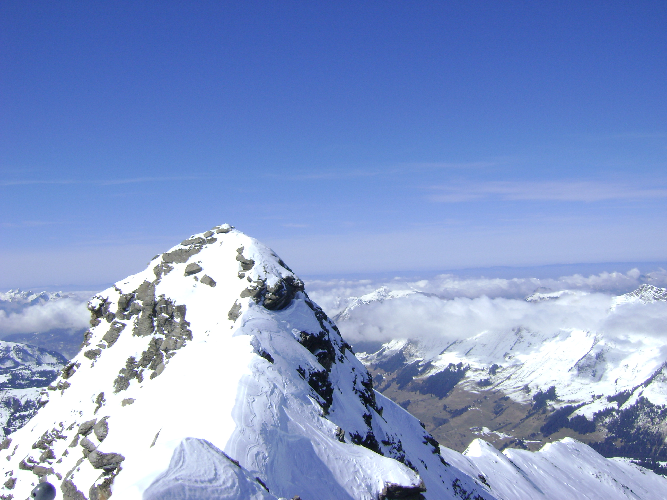 Sex Rouge summit, Les Diablerets (not in Verbier)